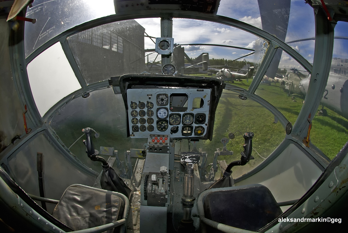 Cockpit. Helicopter Piasecki V-44С (H-21С) "Work Horse" (Shawnee)